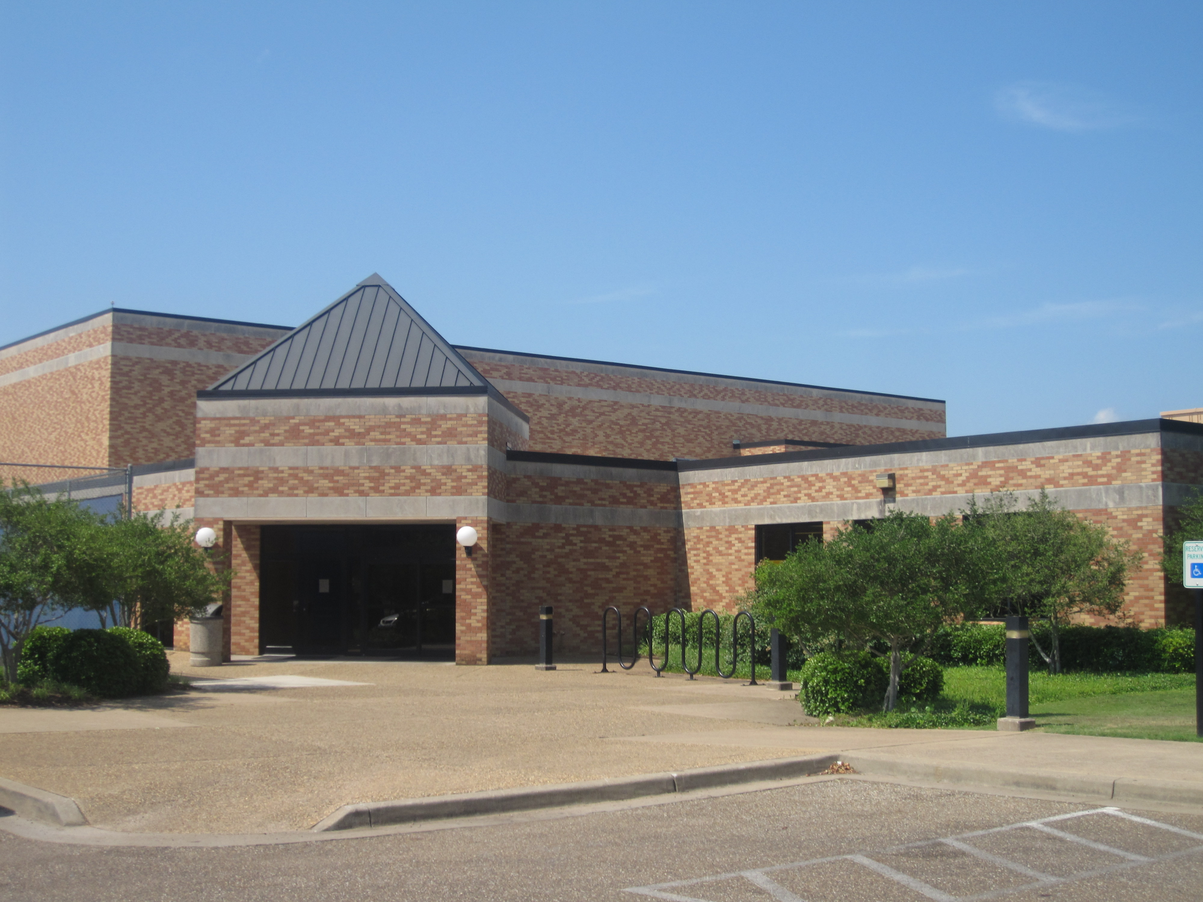 I took photo at LeTourneau University in Longview, TX, with Canon camera.